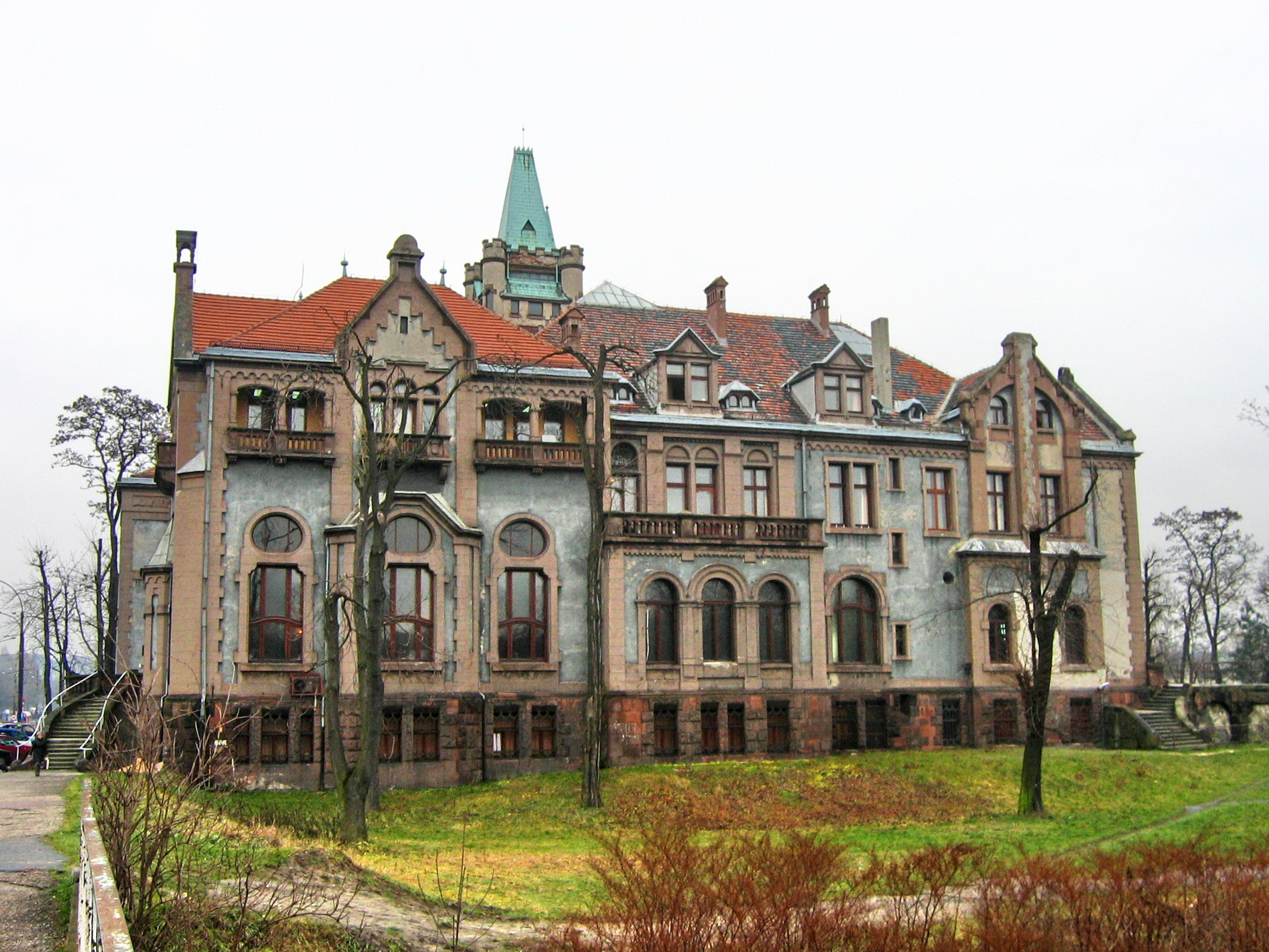 Schoen's Palace in Sosnowiec, Poland